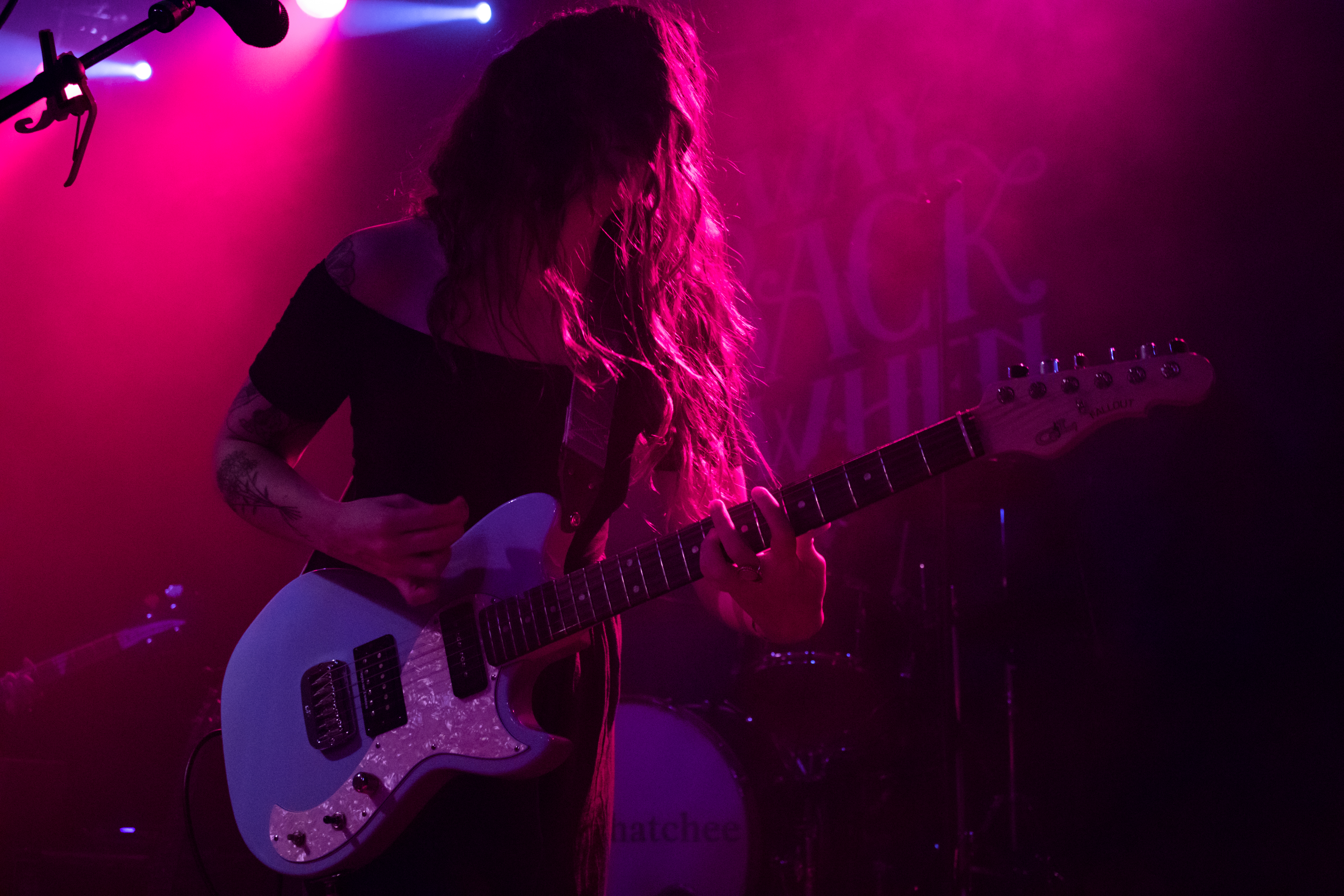 Waxahatchee at Way Back When Festival 2017 in Dortmund